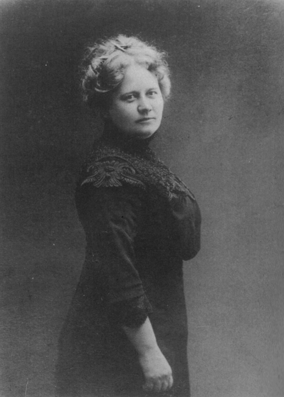 Photograph of the Finnish teacher Alma Heikkinen of Viitasaari.